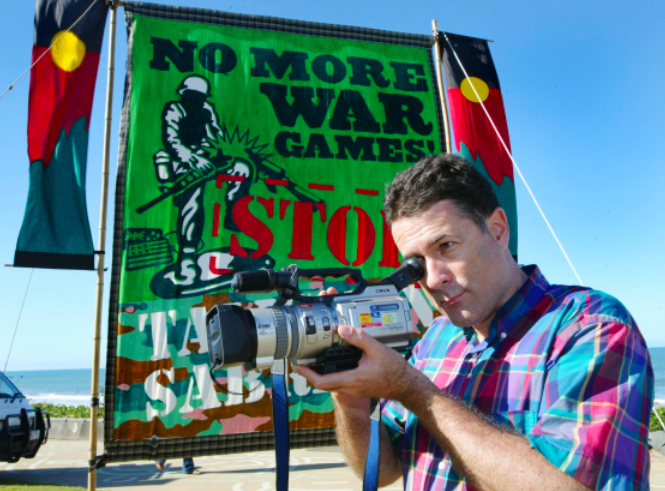 Used with permission of copyright holder: Assoc Prof. Jake Lynch, peace journalist and lecturer of the University of Sydney.Paul Duffill (talk) 01:23, 4 July 2010 (UTC)